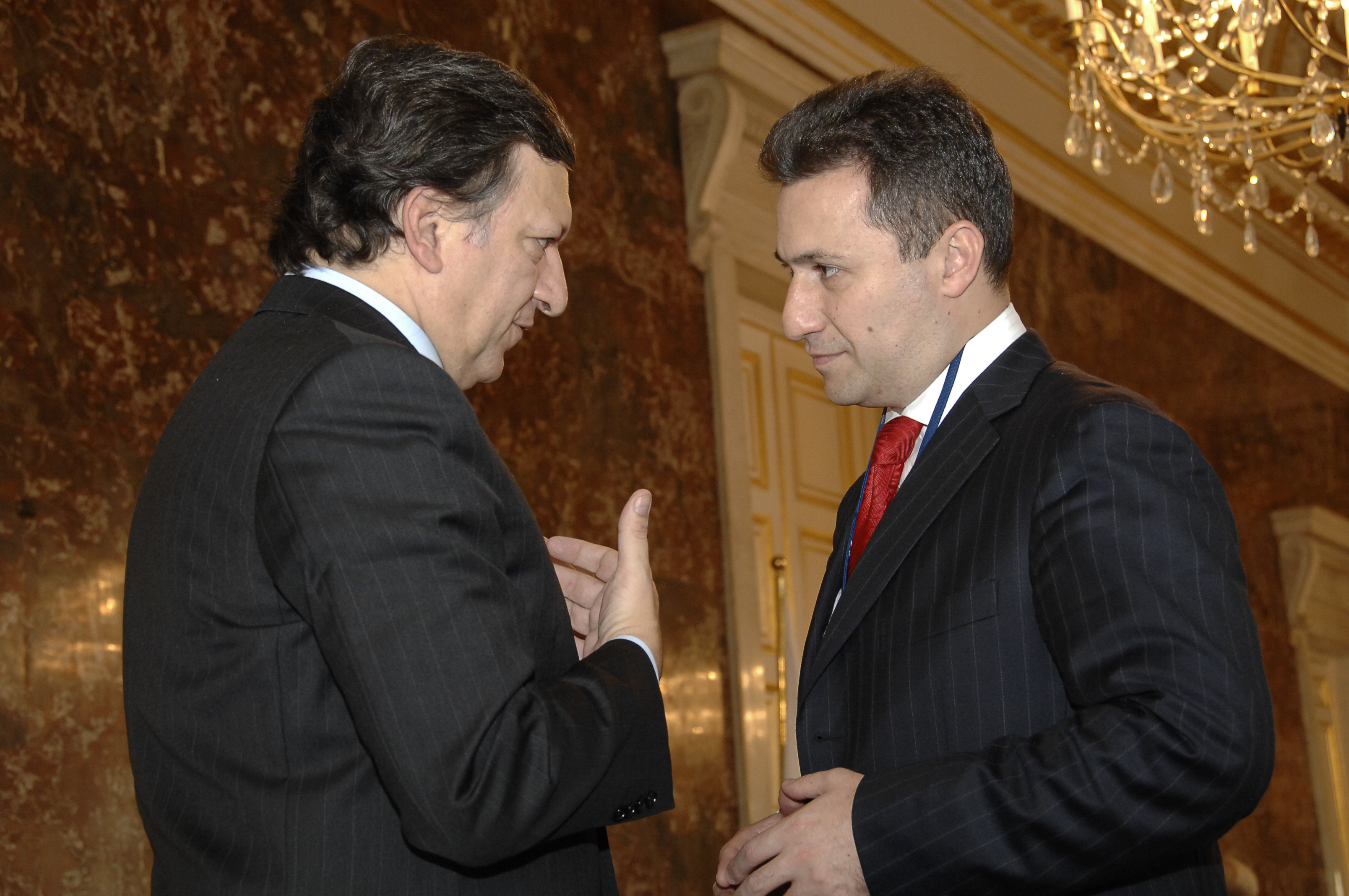 EPP Summit 29 October 2009